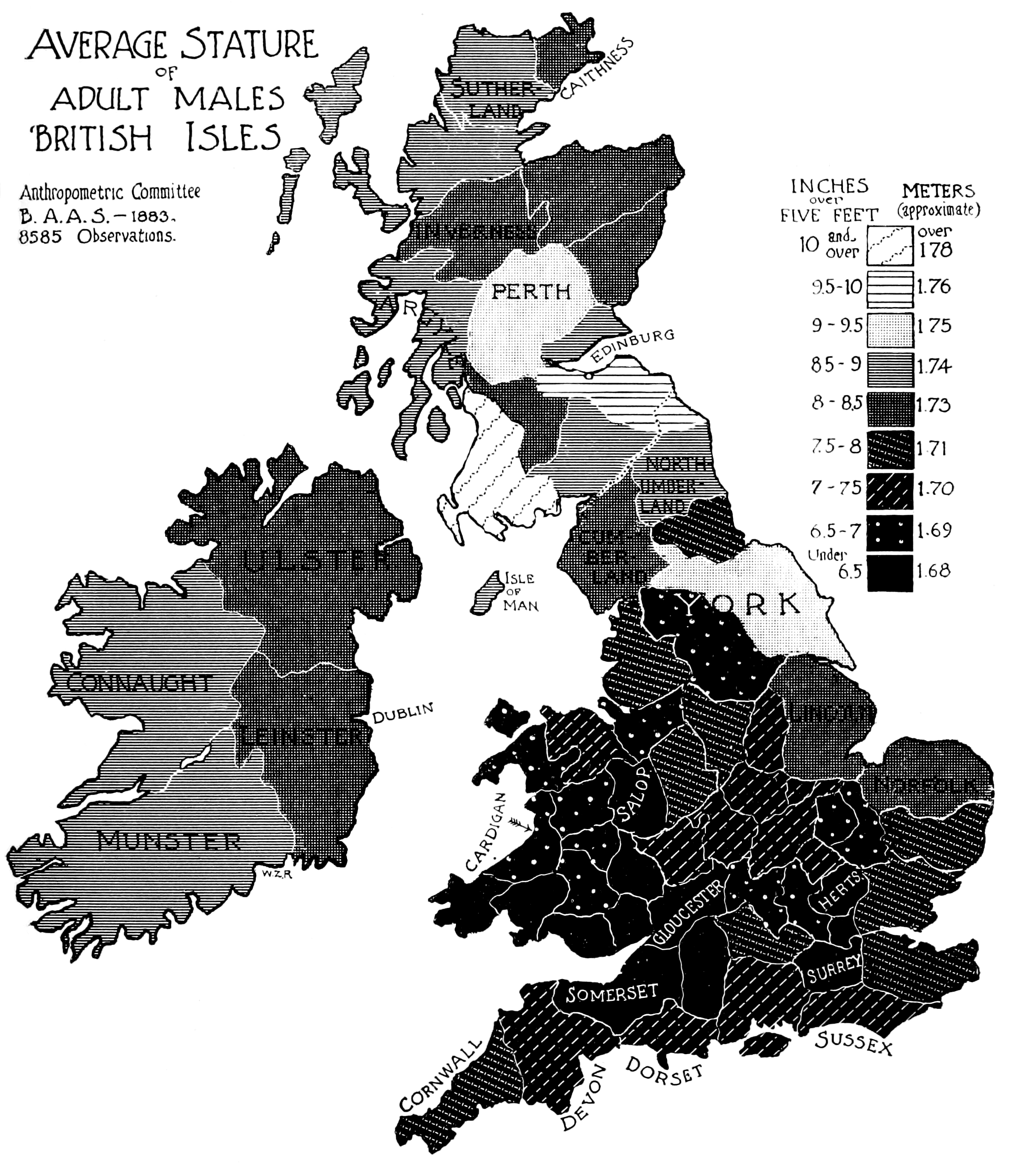 Average stature of males of the British Isles